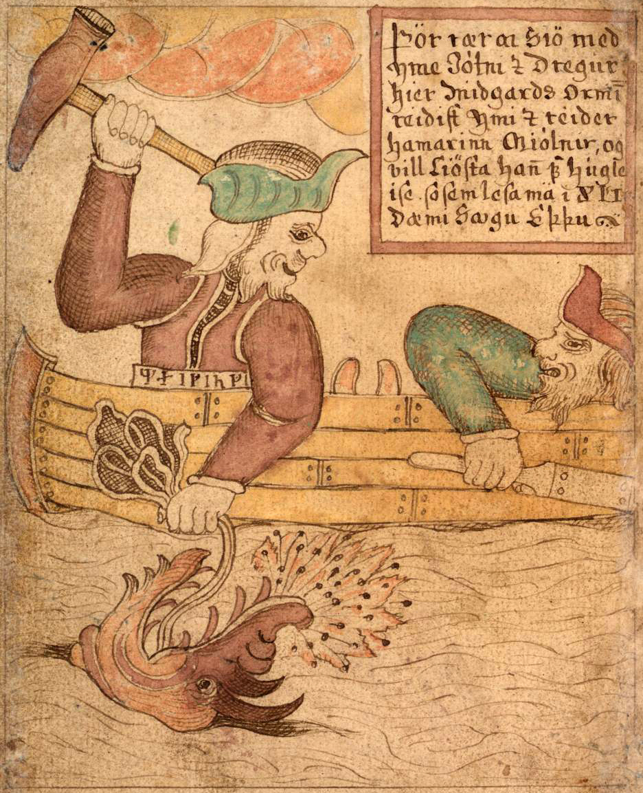 An illustration of the god Thor and the jötunn Hymir on the sea, where Thor gets Jörmungandr on the hook; from an Icelandic 18th century manuscript.